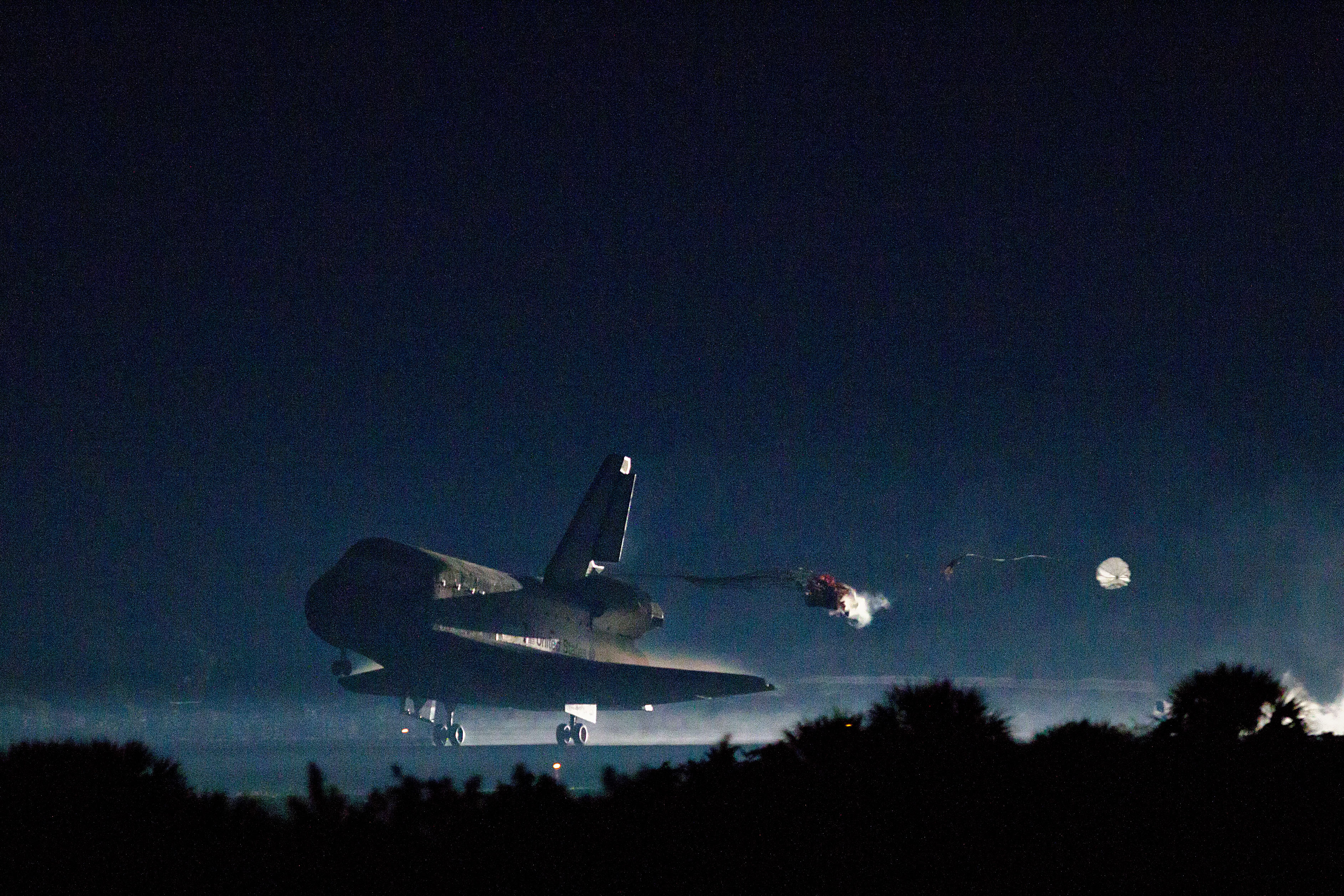 The drag chute is deployed as the space shuttle Atlantis lands on July 21 at the Kennedy Space Center in Florida. The landing completed STS-135, the final mission of the NASA shuttle program.